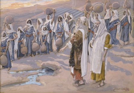 Moses Smiteth the Rock in the Desert, c. 1896-1902, by James Jacques Joseph Tissot (French, 1836-1902), gouache on board, 7 3/8 x 11 1/16 in. (18.7 x 28.2 cm), at the Jewish Museum, New York